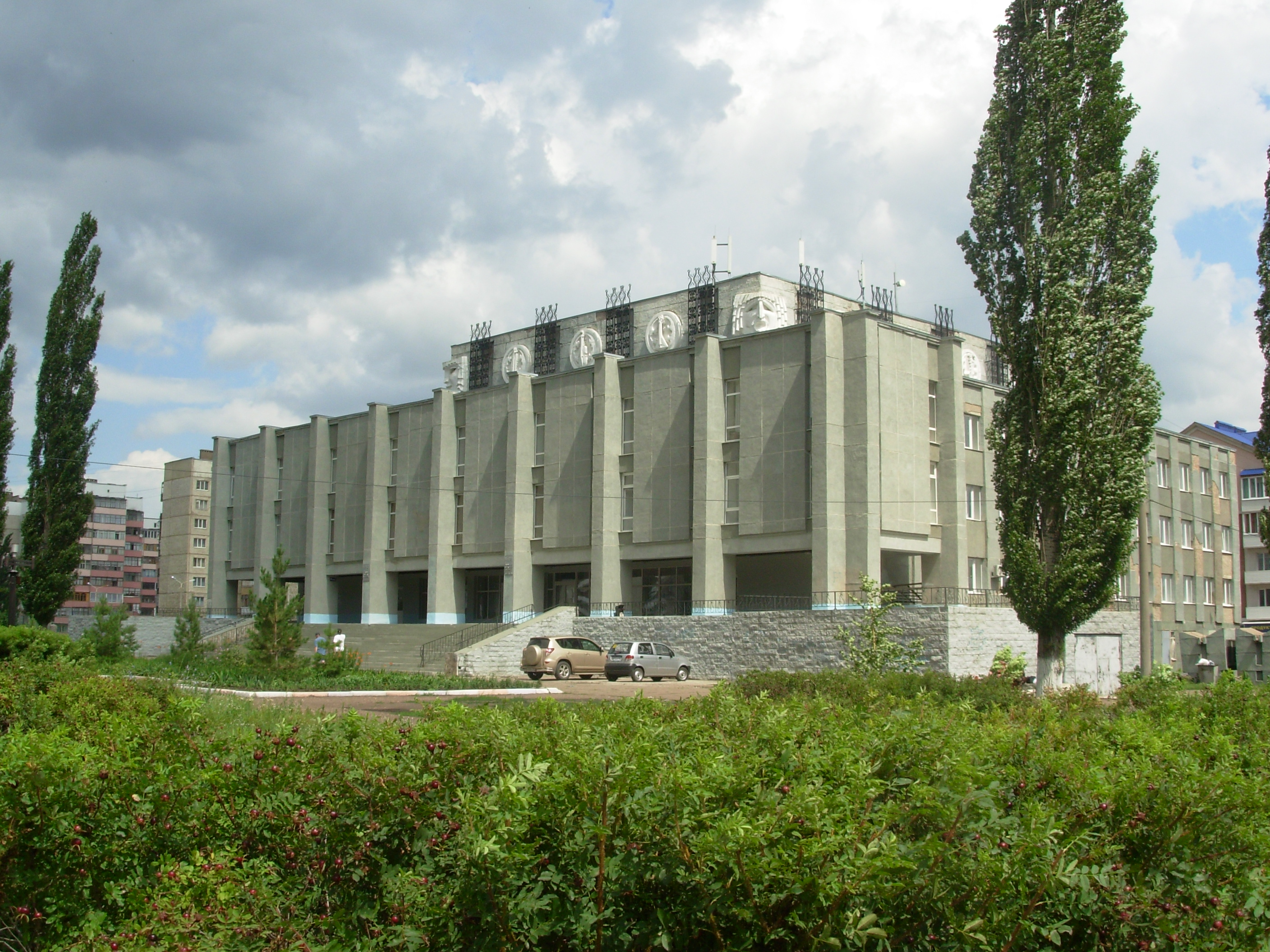 street